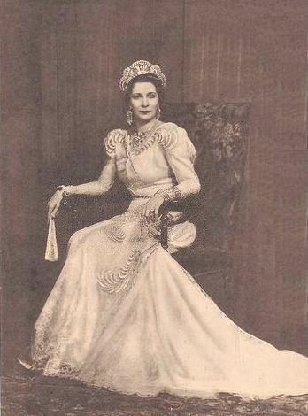 An official birthday picture for Nazli Sabri.